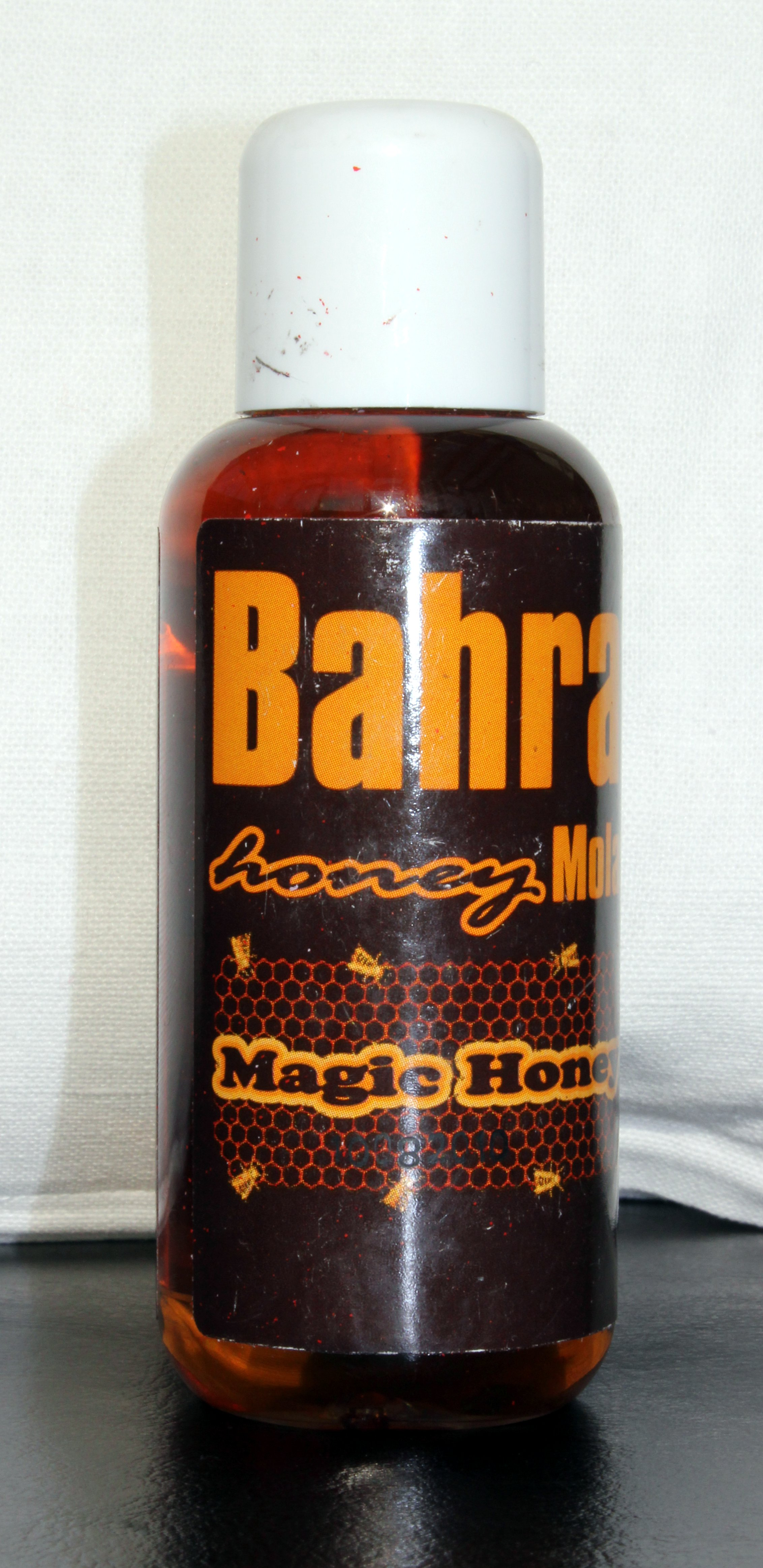 Bahrain Honey Molasses